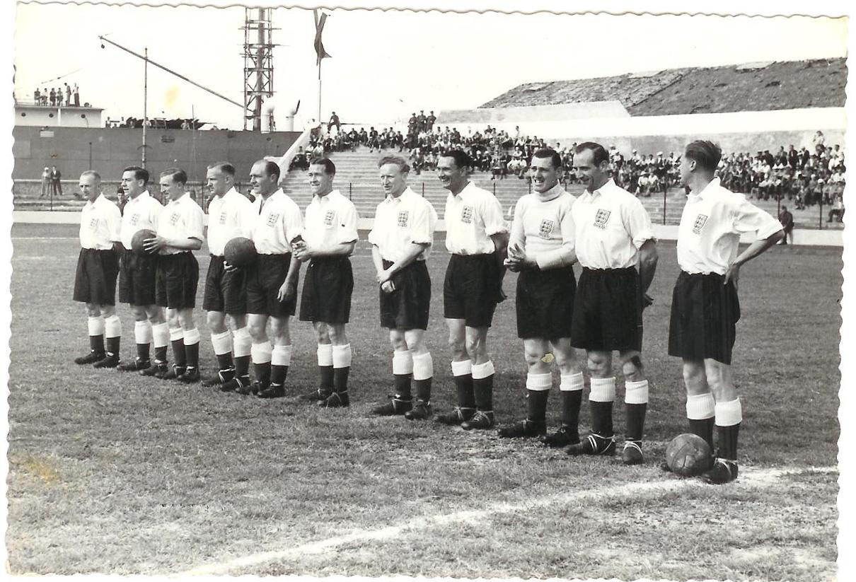 This is a photo of the team line up of the 1948 GB Olympic team